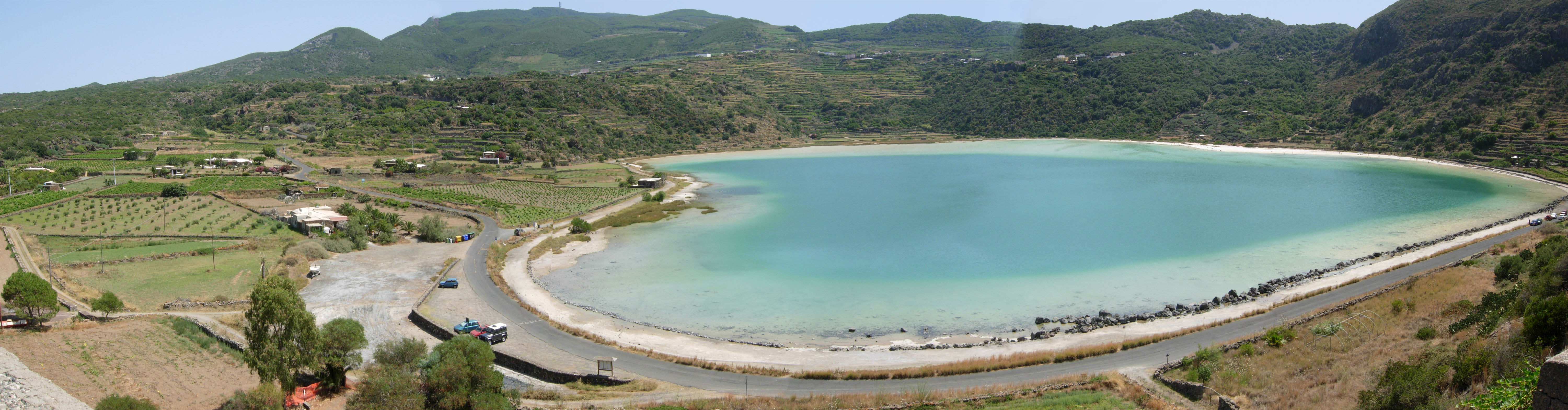 Pantelleria, Venus mirror lake